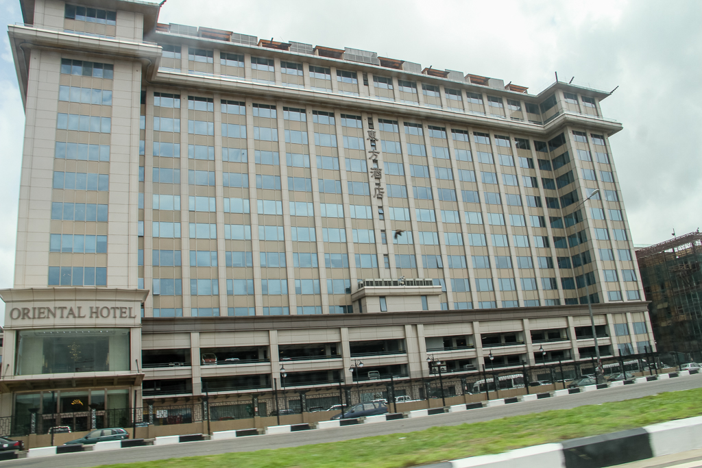 Oriental Hotel at Lekki Lagos